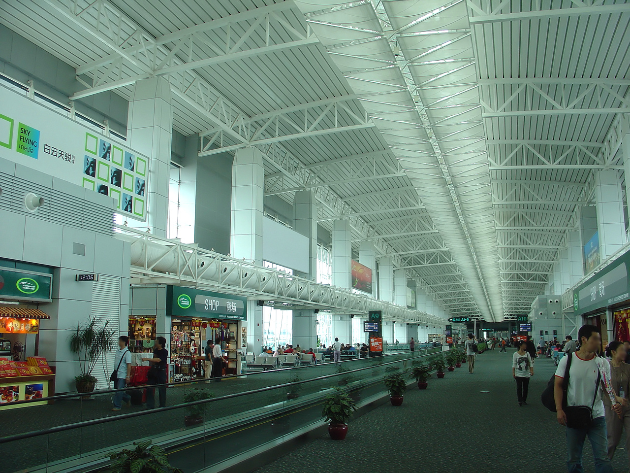 Departure Lounge of Guangzhou Baiyun International Airport.(Guangzhou City, Guangdong province, China)